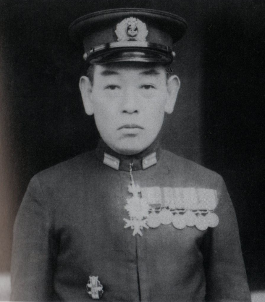 Asakuma Toshihide is an Imperial Japanese Navy Vice Admiral